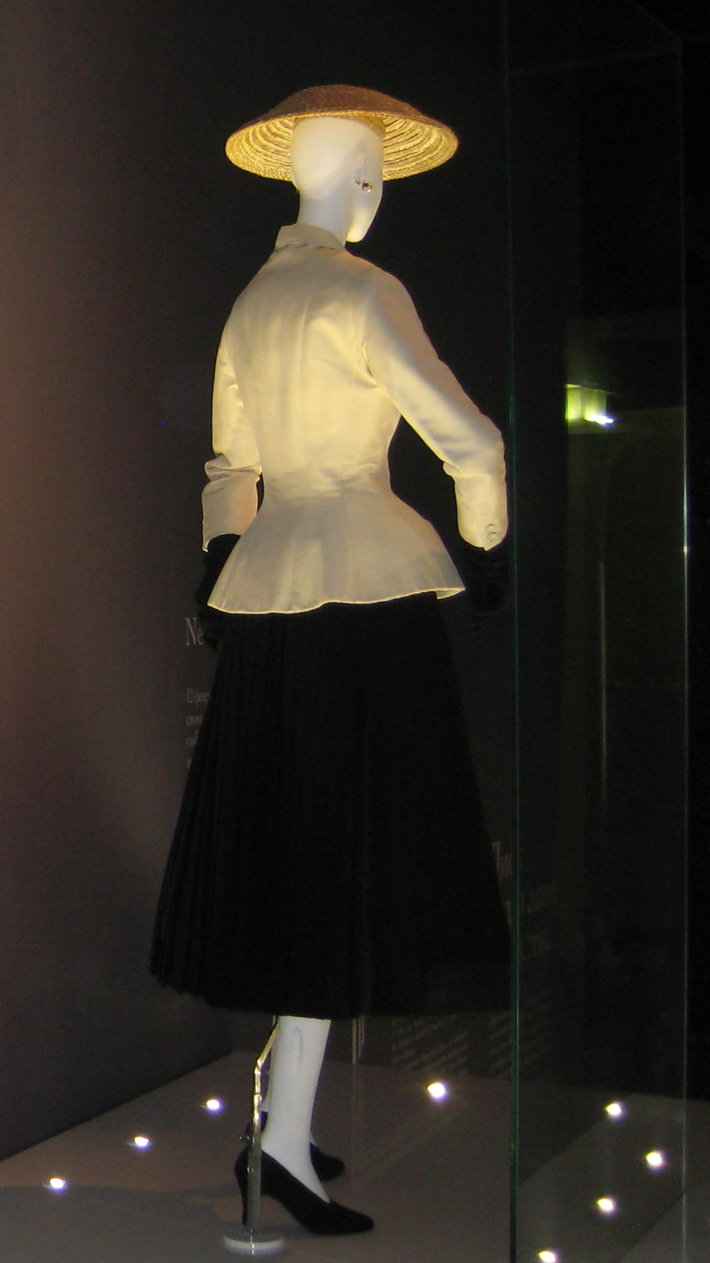 Выставка ("Bar suit" from 1947, Dior's "New Look" (Corolle collection, Spring/Summer 1947))